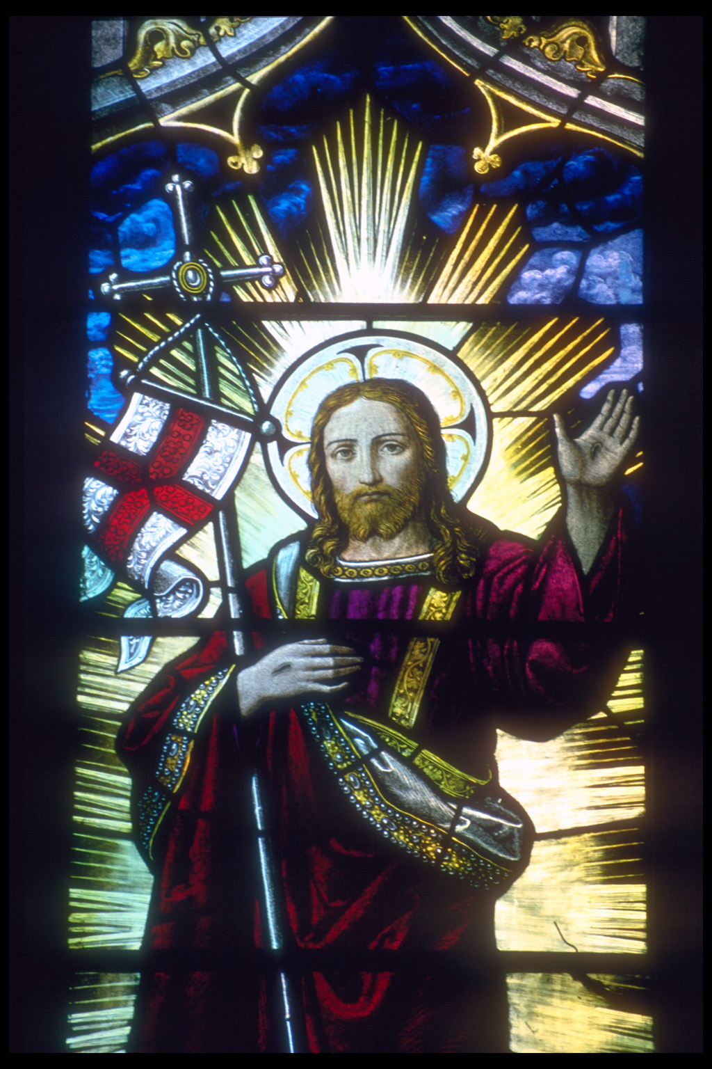 Photograph of a stained glass window in Rochester Cathedral, Kent, England. Picture shot on Fuji Velvia film using a Minolta SLR/tripod by Dlloyd.